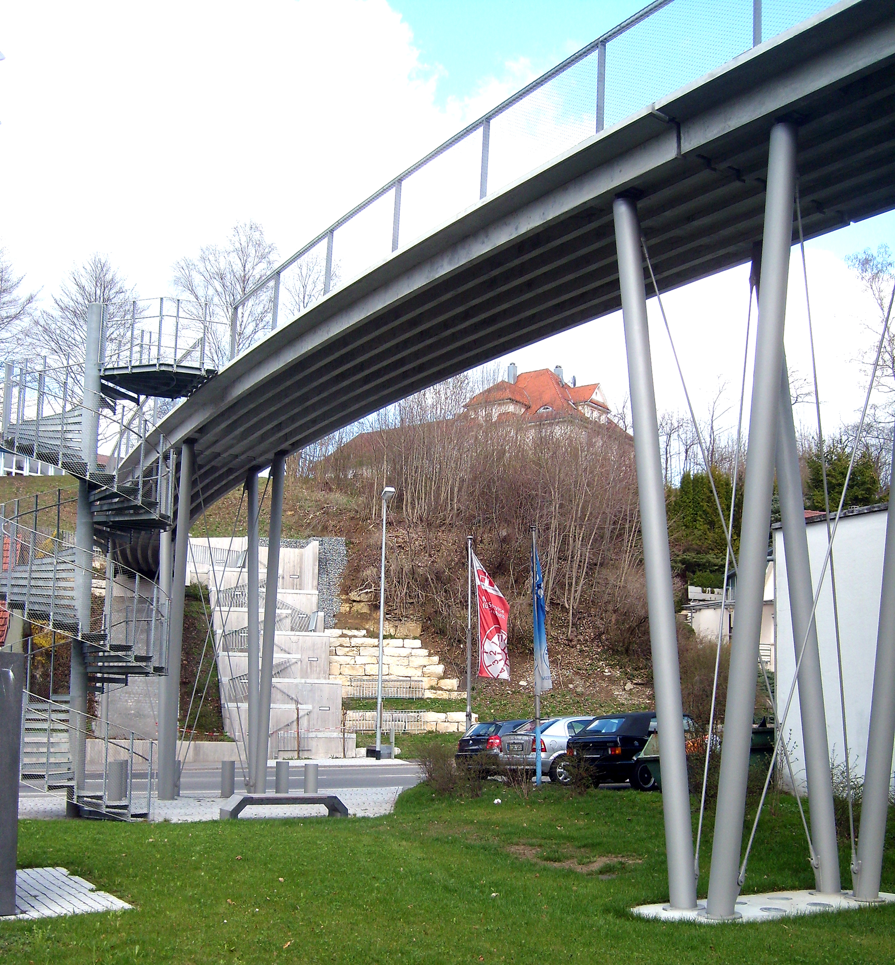 Bridge build with fiber-reinforced concrete in Lautlingen, Germany